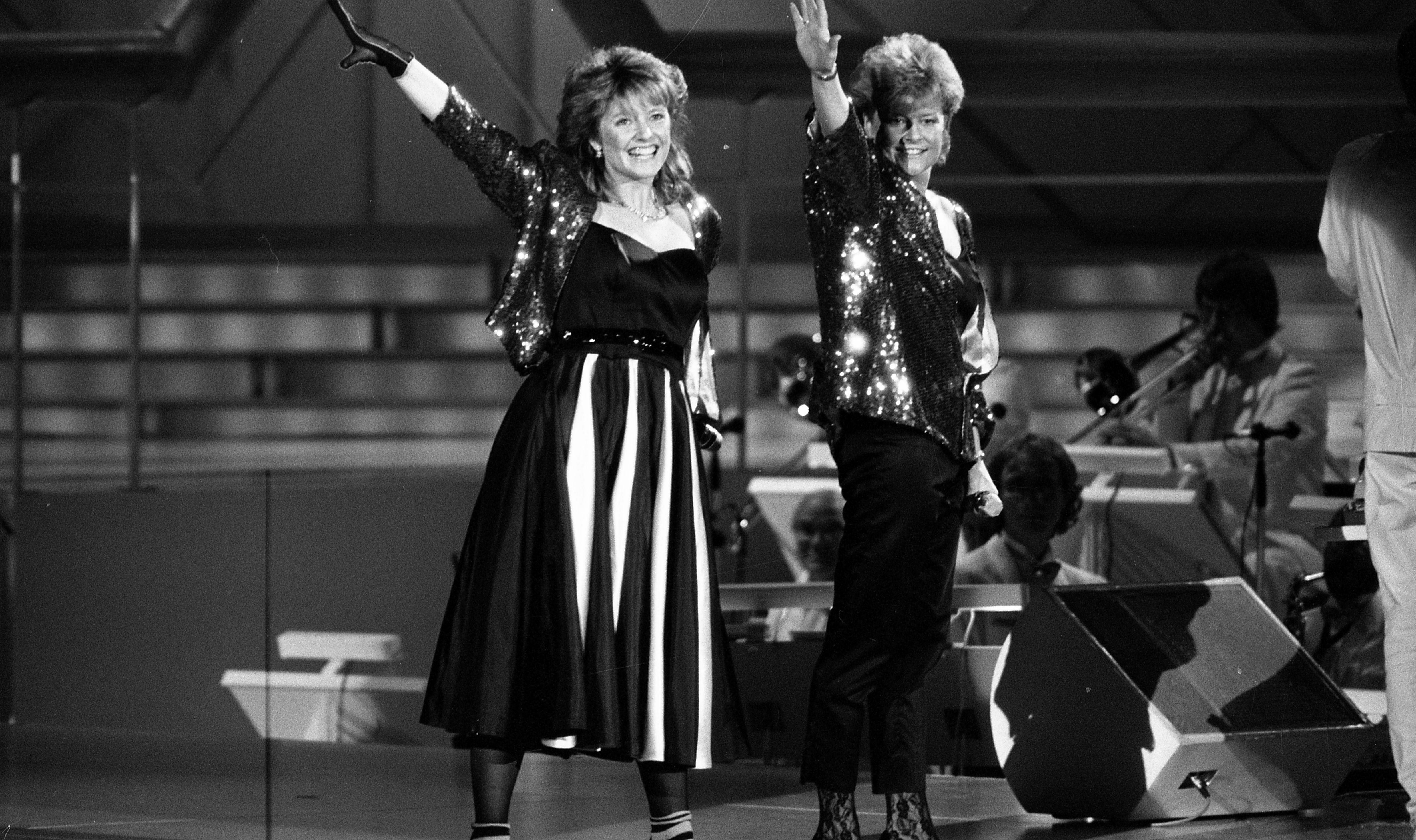 Eurovision Song Contest, Gøteborg, 1985. Foto: Trygve Indrelid. Arkivref.: PA-0797_U_13225_013_019